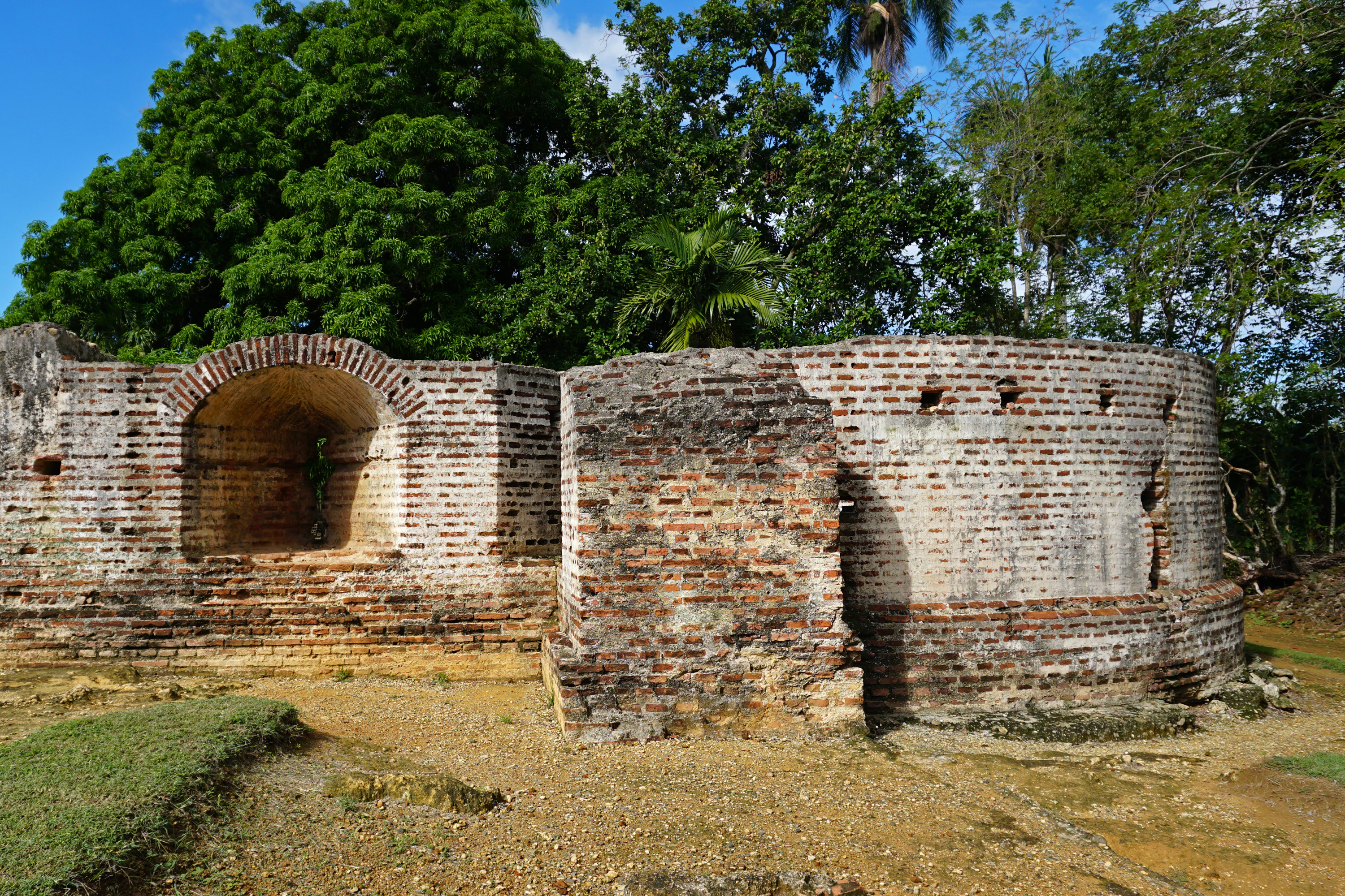 Concepción de la Vega Fort, La Vega Vieja, Dominican Republic